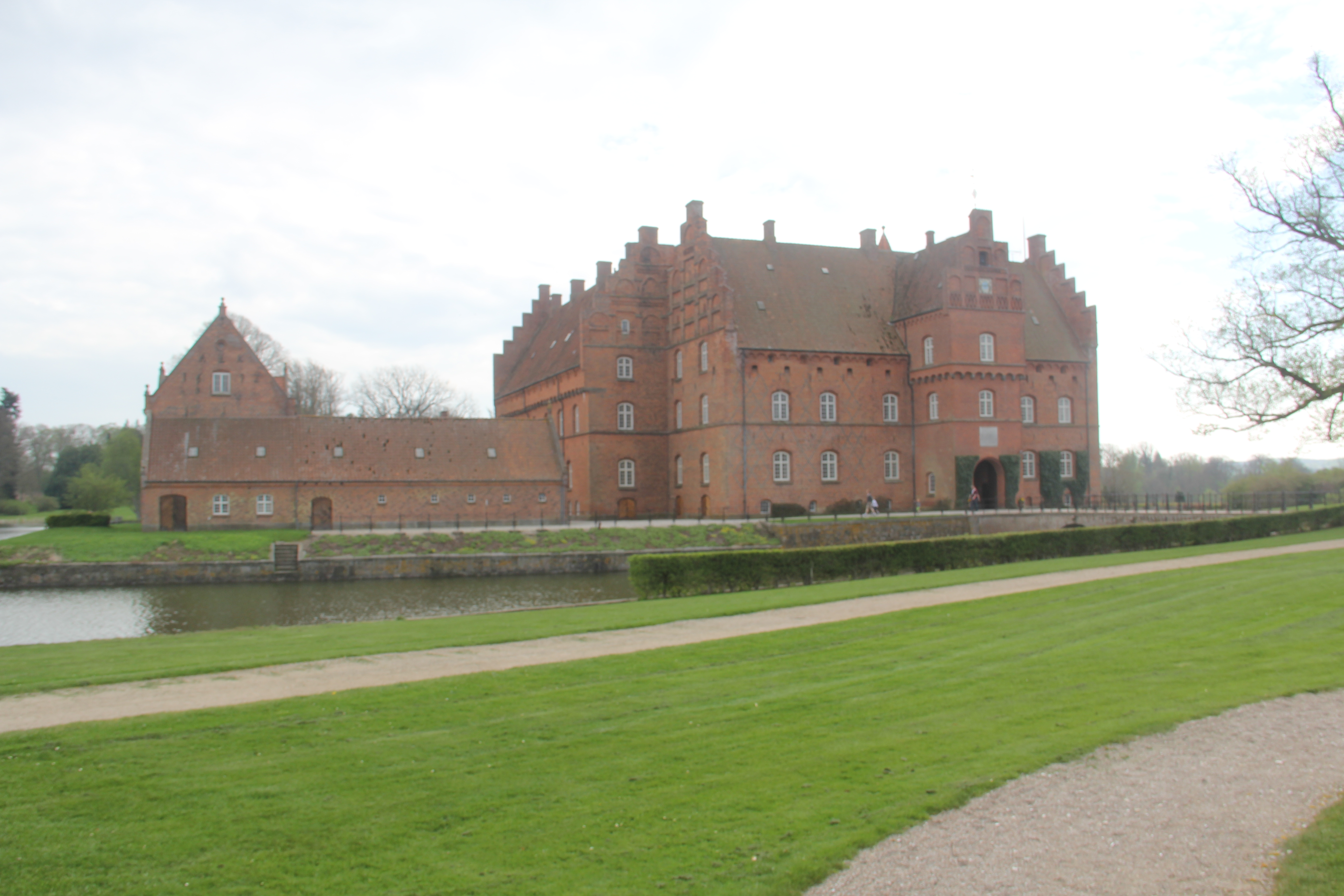 Gisselfeld Castle